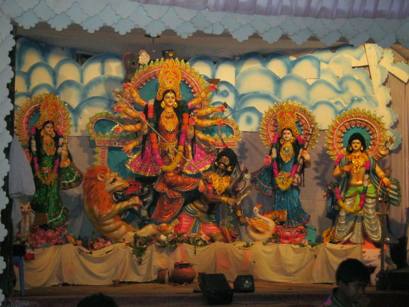 image of goddess durga